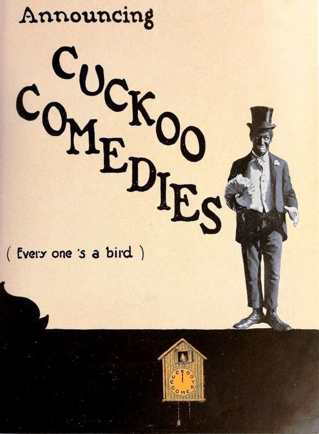 Ad for a series of blackface comedy shorts in the Cuckoo Comedies series starring Bobby Burns, on pages 1565 to 1568 of the August 23, 1919 Motion Picture News. The ads state that the films are "clean and wholesome fun" indicating how films with blackface actors were viewed at that time. It was not until the end of the 1930s that films with blackface actors disappeared from the U.S.